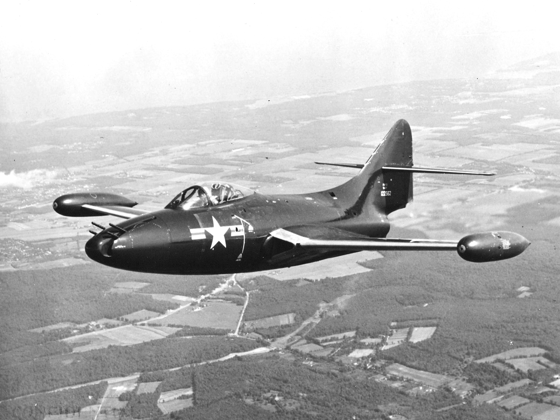 A U.S. Navy Grumman F9F-3 Panther (BuNo 122562) operated by the Naval Air Test Center at Patuxent River, Maryland (USA). This aircraft was fitted with an experimental electro-hydraulically driven Emerson Aero X17A roll-traverse turret housing four 12.7 mm machine guns, in 1950. The idea was that the aircraft could destroy enemy bombers while avoiding the fire of the tail gunner. The guns could be directed at any angle from directly forward to 20 degrees aft, and the gun mount could roll 360 degrees. The roll rate was 100 degrees per second, and the guns could be traversed at up to 200 degrees per second. Unfortunately, the volume required for the fire control system avionics, and the sheer weight of the turret, made it impractical for single-seat fighters and the program was cancelled in early 1954.